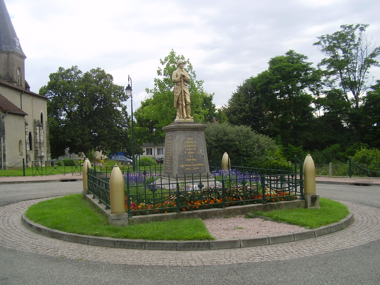 Memorial (World War I) in Abrest, Allier, Auvergne, France. Place Jean-Moulin